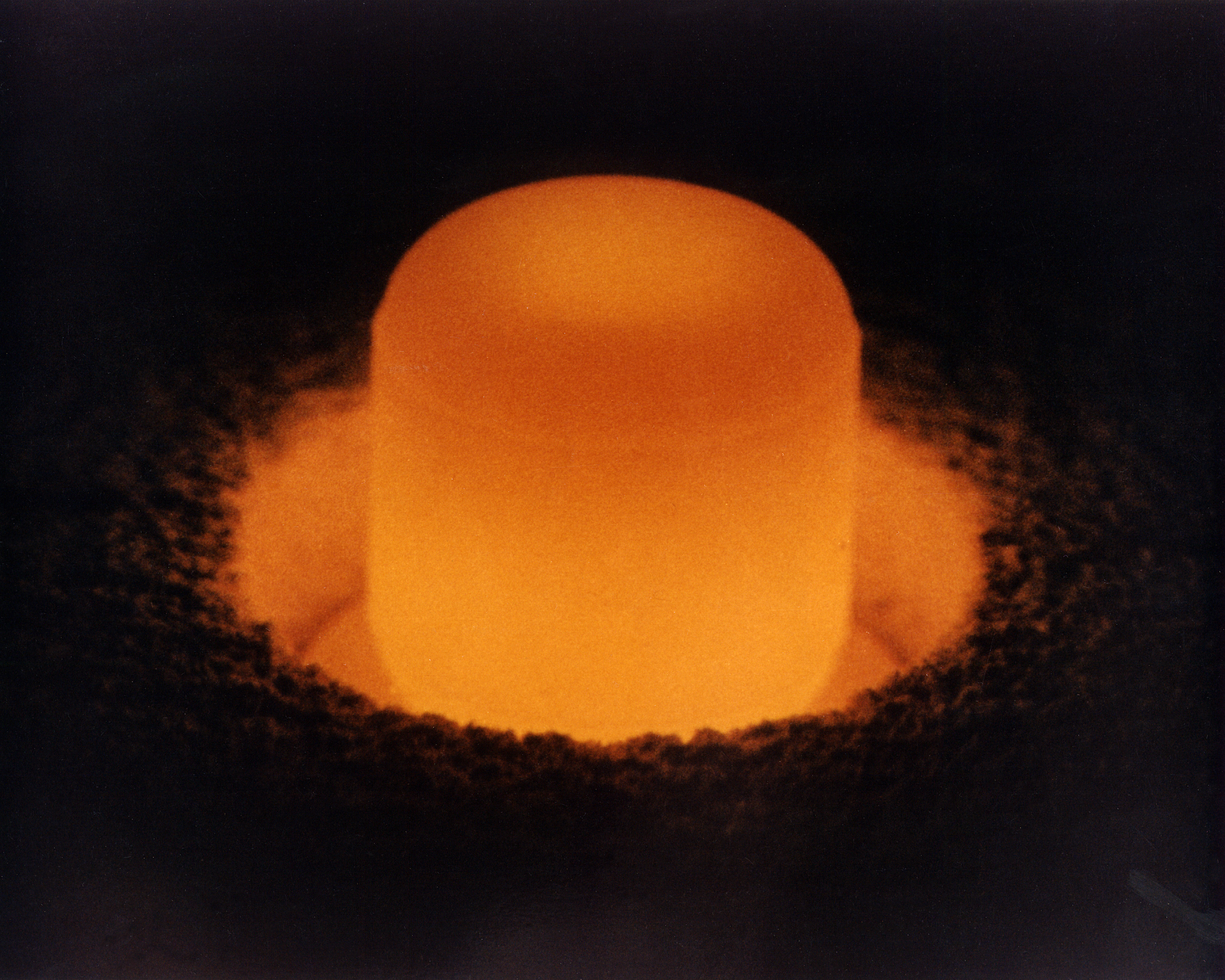 Plutonium-238 pellet under its own light. Pu-238, with a half-life of 87.7 years, is being used in space applications requiring a power source with a long service life. Pu-238 has a relatively high heat production rate which makes it useful as a power source. As a power and heat source, Pu-238 has also been used to power instruments left on the Moon by Apollo astronauts, navigation and weather satellites, and interplanetary probes. The interplanetary probe Pioneer-10, powered by a Pu-238 source, recently left the solar system. Image ID: 2006407